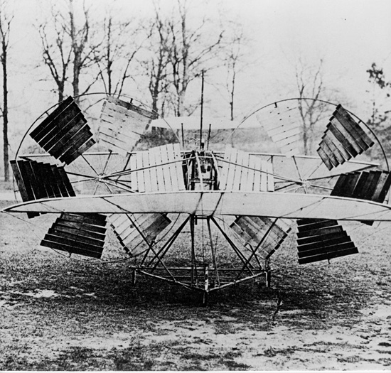 Photograph of Thomas Moy's Aerial Steamer, 1875